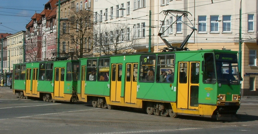 Konstal 105Na+105NaD in Poznań